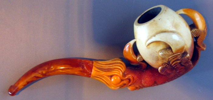 smoking pipe